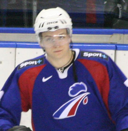 match de hockey sur glace, France - Pologne, Nicolas Besch